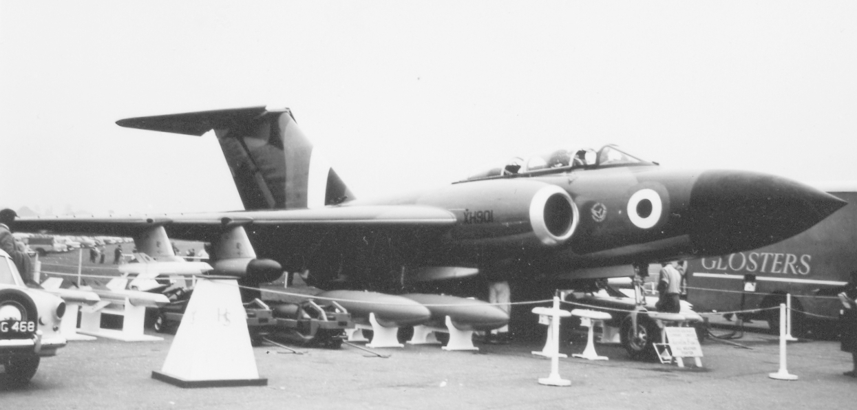 Gloster Javellin FAW7 XH901 at the SBAC Show, Farnborough 13 September 1958